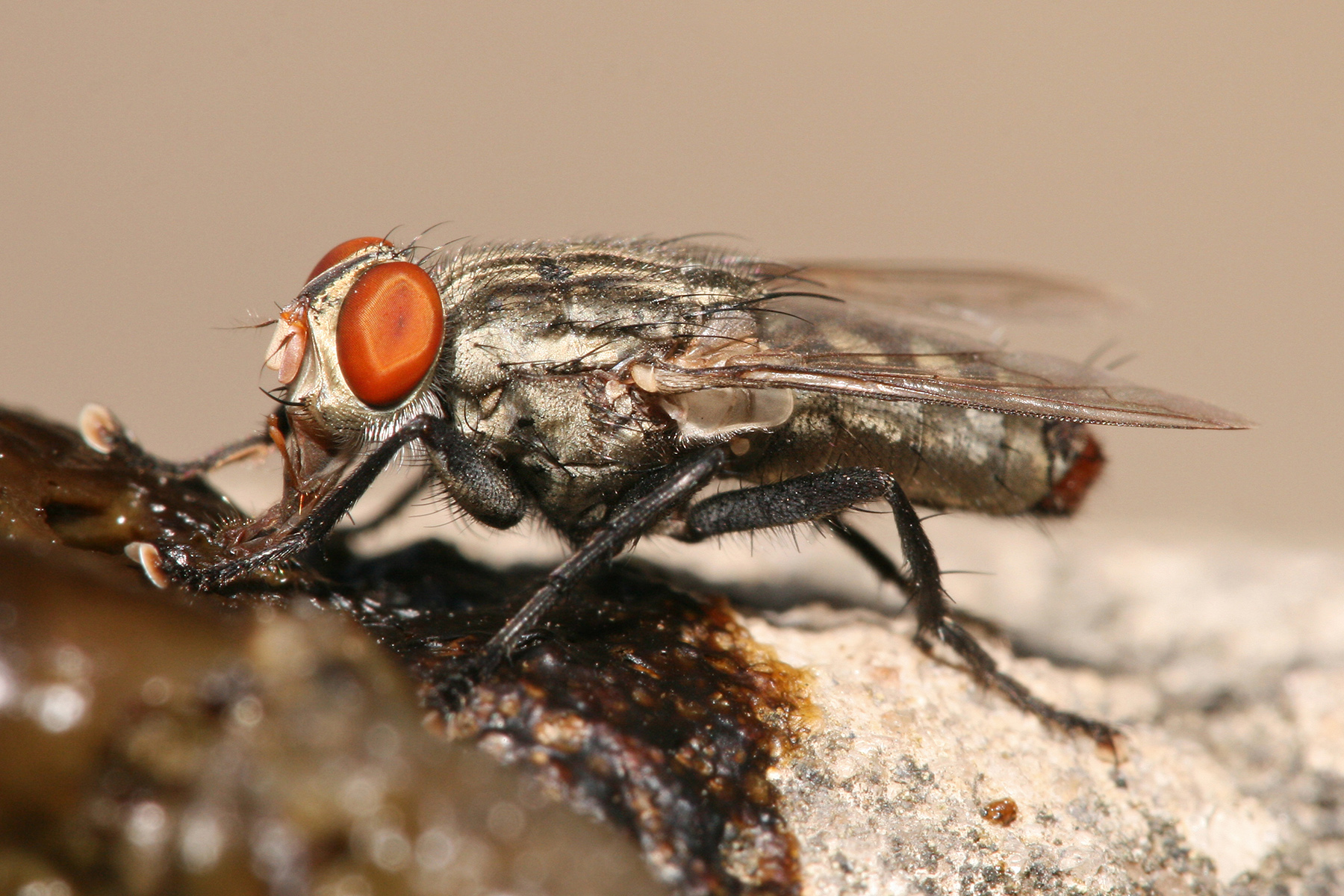 A Sarcophaga bercaea sp feeding on animal feces in Dar es Salaam.